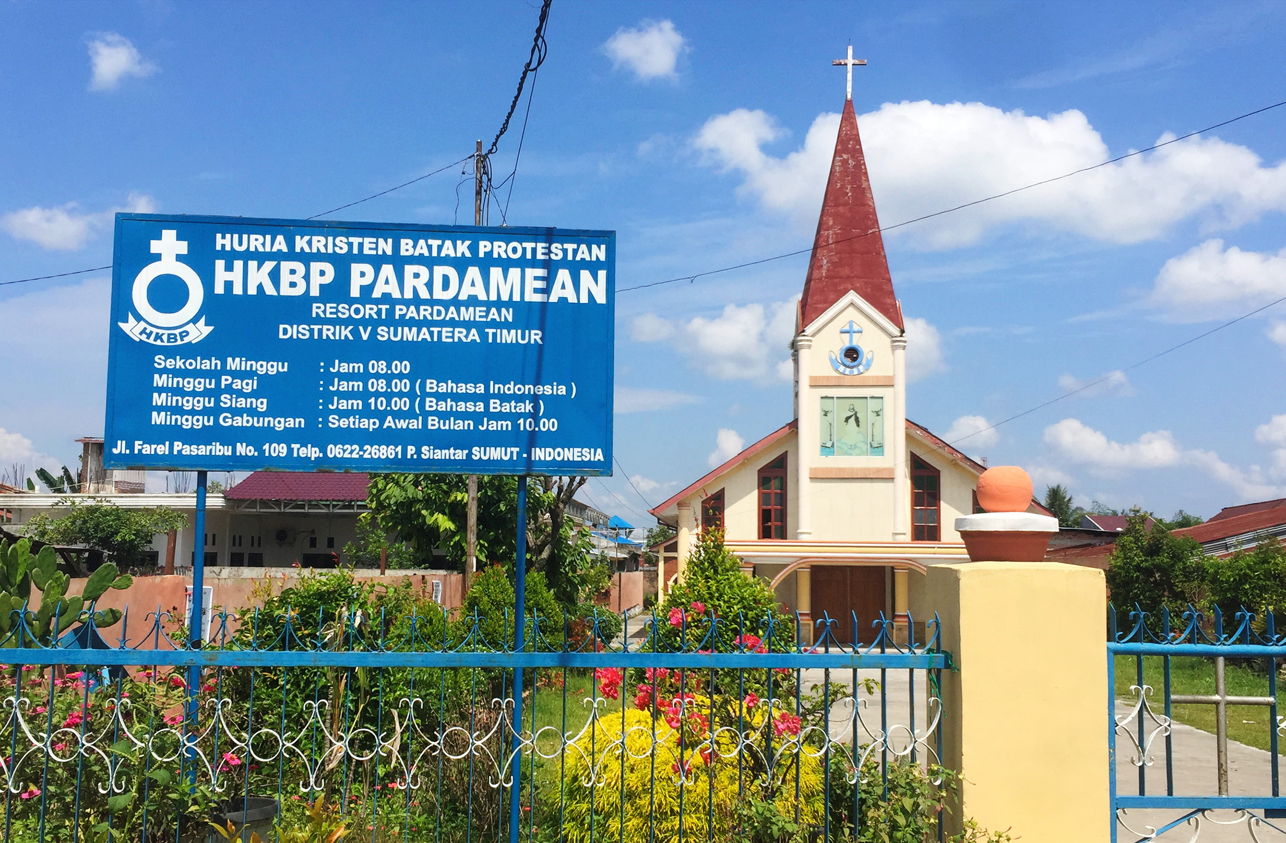 HKBP Pardamean, Church in Siantar Marihat, Pematangsiantar